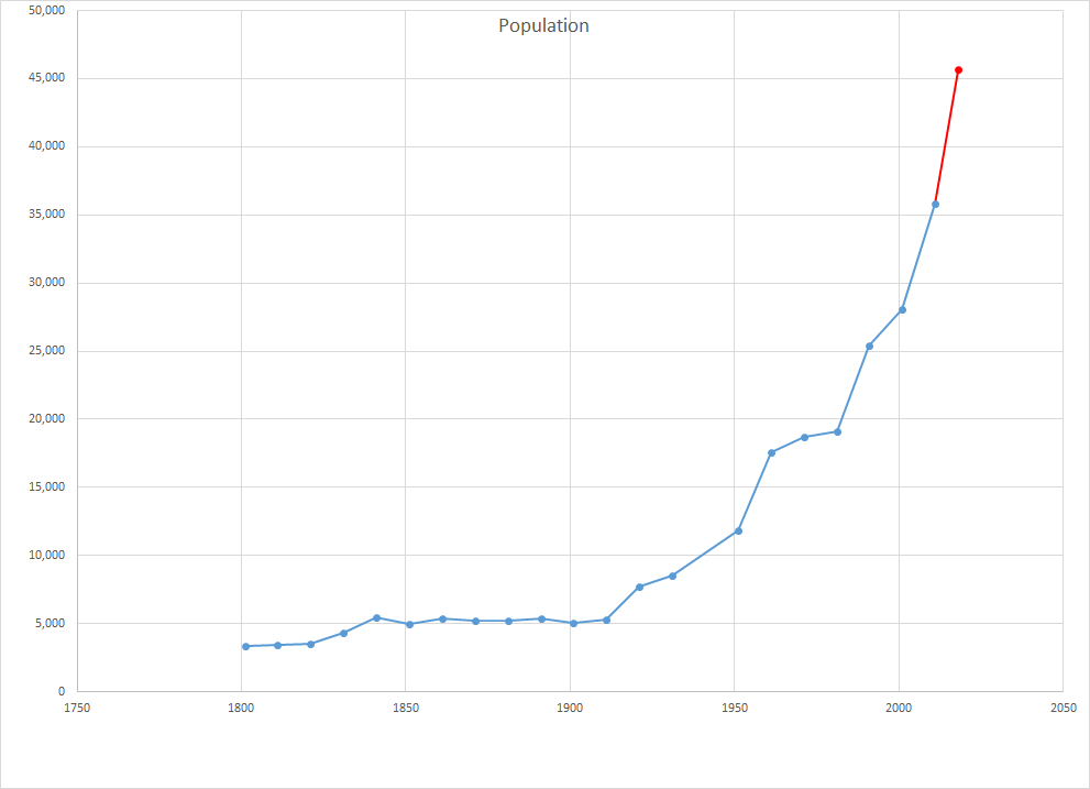 This graph shows the population growth of Chippenham with the estimated population in red..